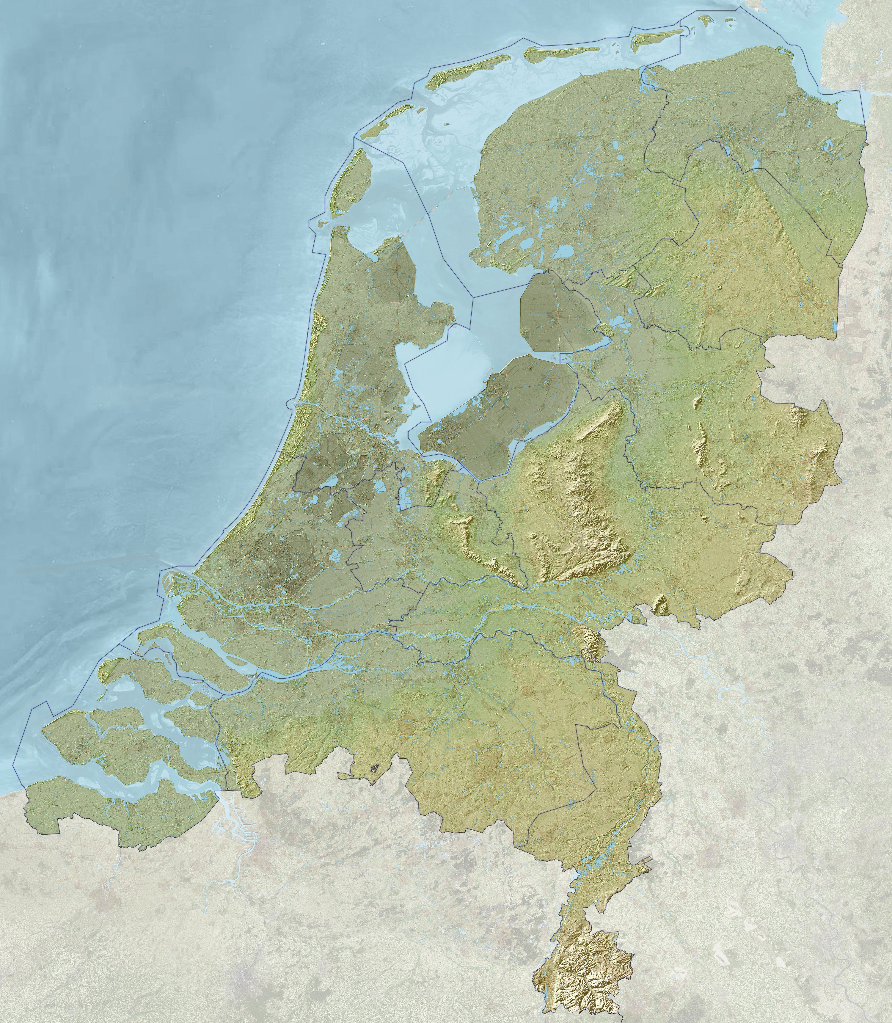 Map of the Netherlands with relief and depth, including provincial borders. Cities and motorways are faintly visible through the relief image for orientation purposes. The terrain height varies from approximately −7 meter (−23 ft; below sea level, dark green) to approximately 322.7 meter (1,059 ft; above sea level, light green). Used data from public sources: Edited reference background on water from Usage is free with acknowledgements to NLR and ESA. Rasterized relief from the AHN Viewer ( usage is free with acknowledgement (c) AHN